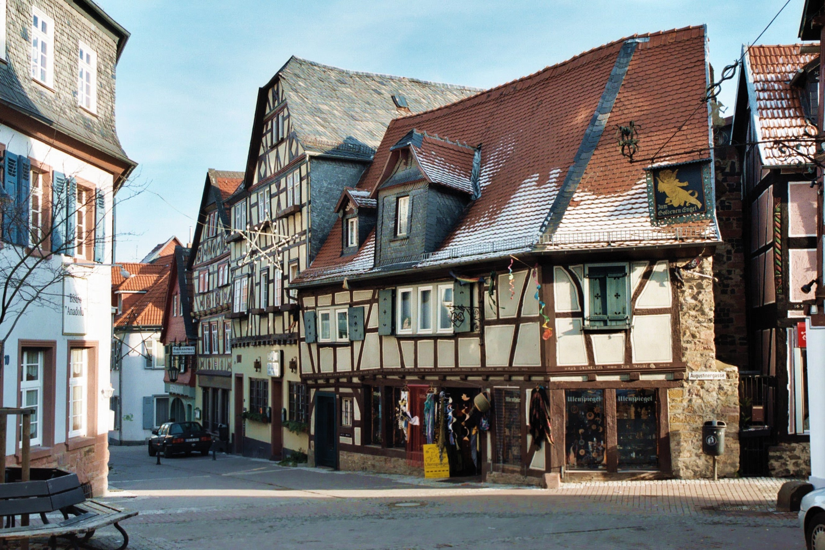 Friedberg (Hessen), timber-framed houses on the Usagasse